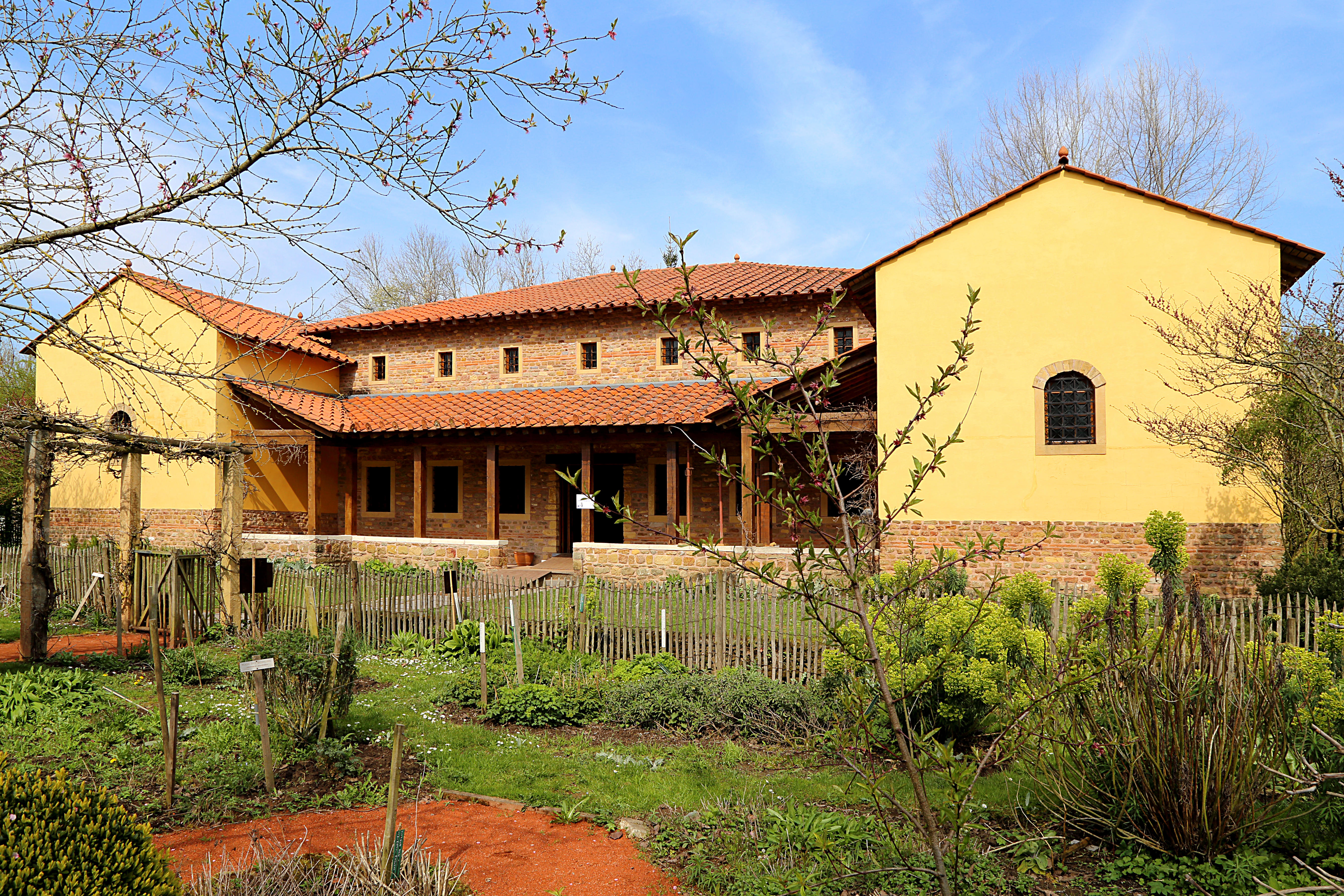 The Roman villa in the Archeosite of Aubechies, Belgium.